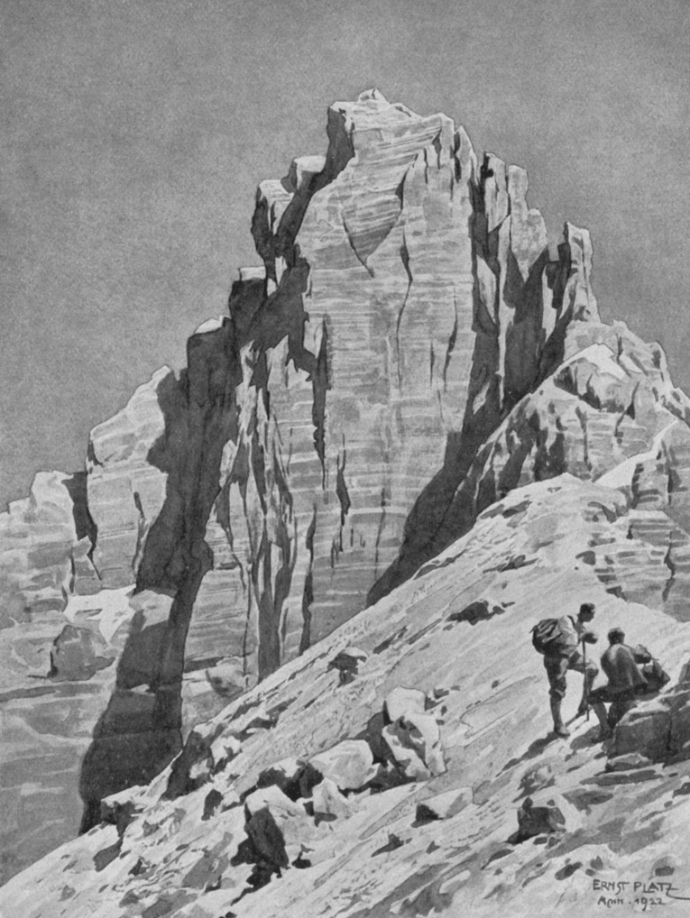 Pflerscher Tribulaun from West